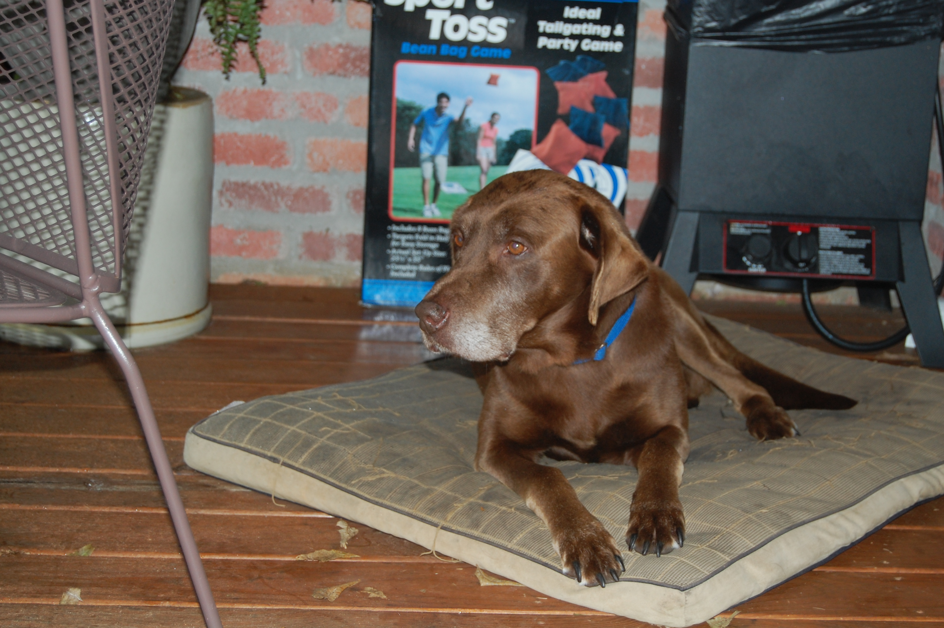 Picture of aging Chocolate Labrador